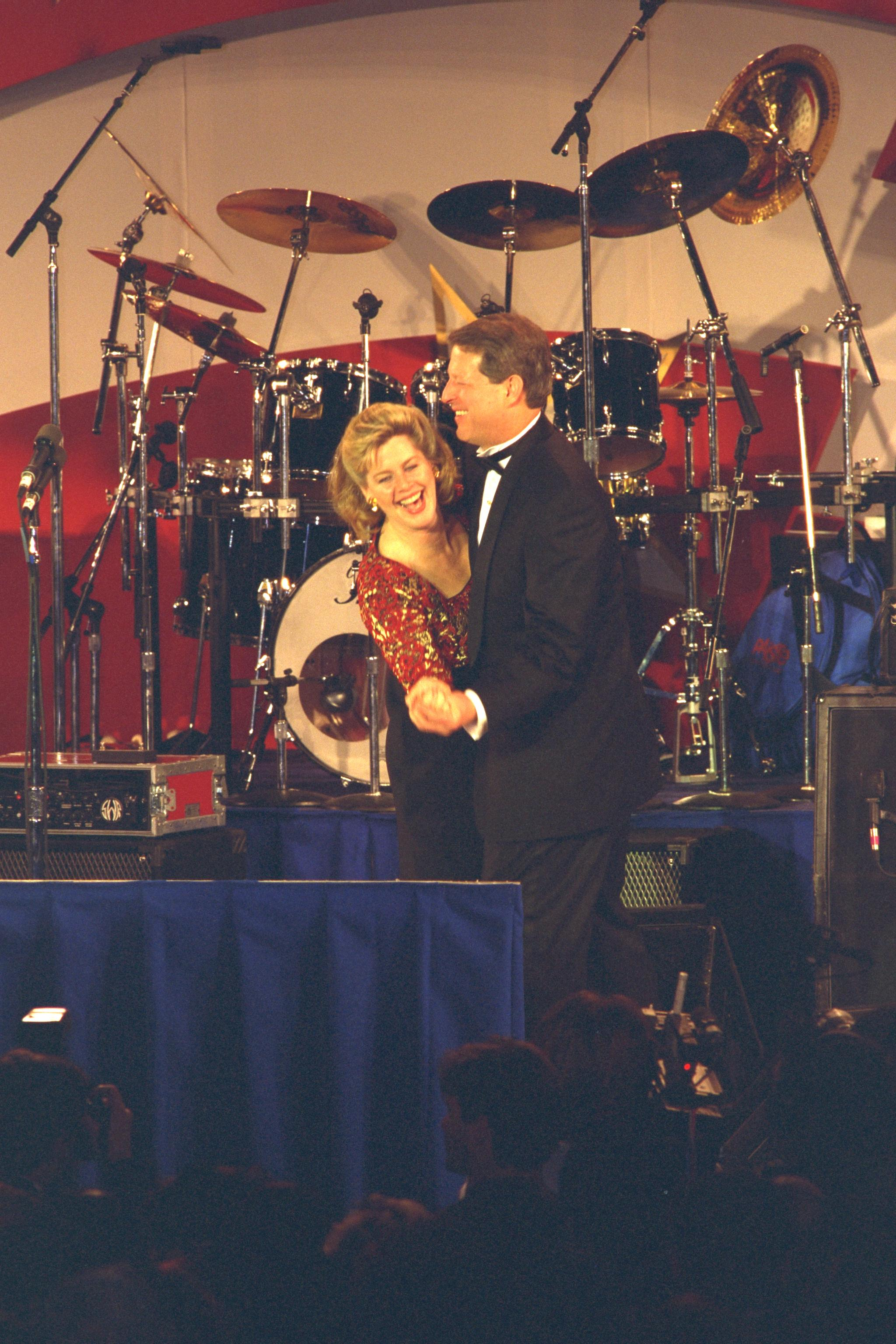 Creator/Photographer: Smithsonian Photographer Medium: C-type print Culture: American Date: 1997 Persistent URL: [1] Repository: Smithsonian Institution Archives/Smithsonian Photographic Services Accession number: 3A6DECD752D740BF